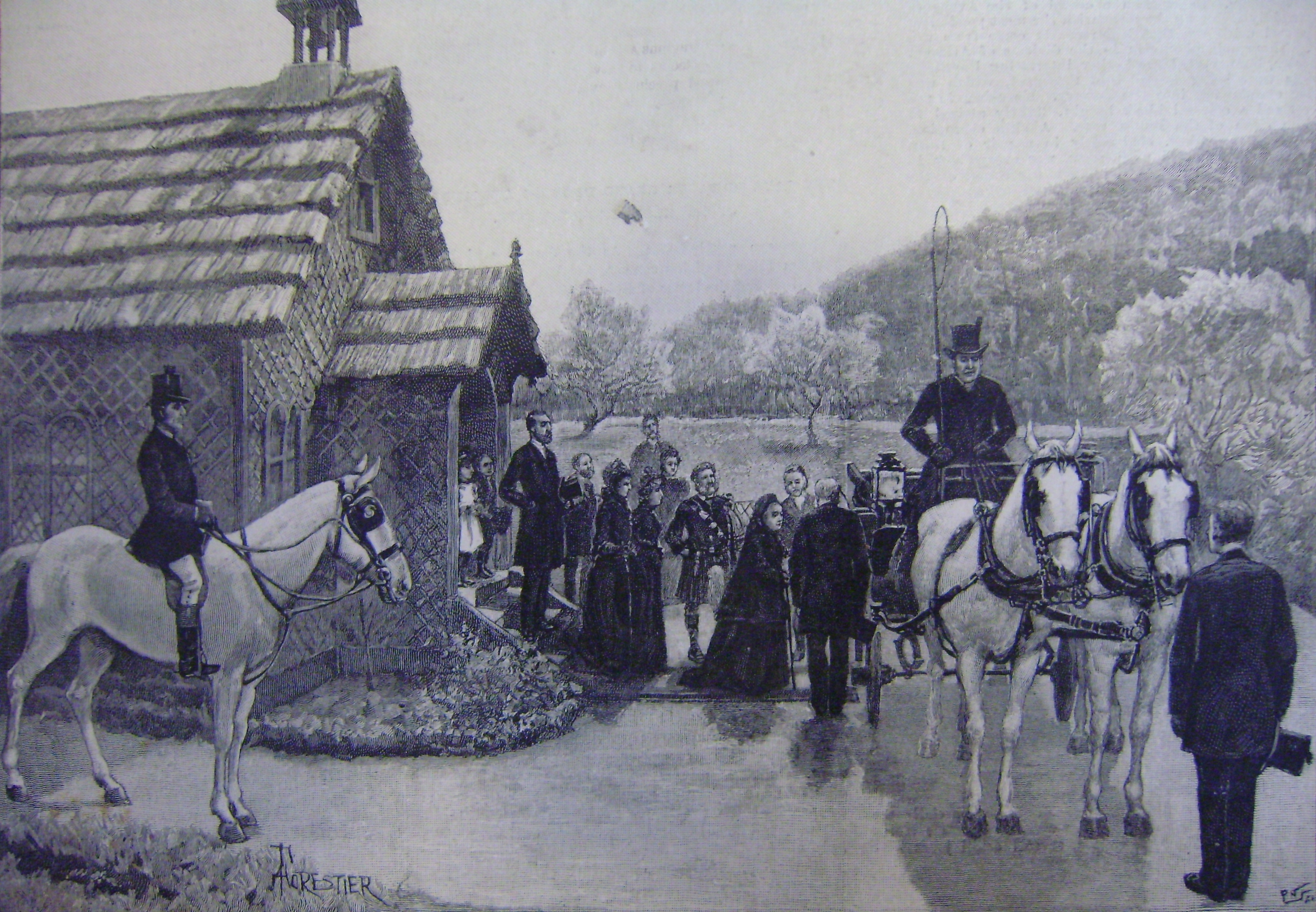 1892 : « The Queen [Victoria] at Hyères: Sunday morning at the English church, Costebelle. »